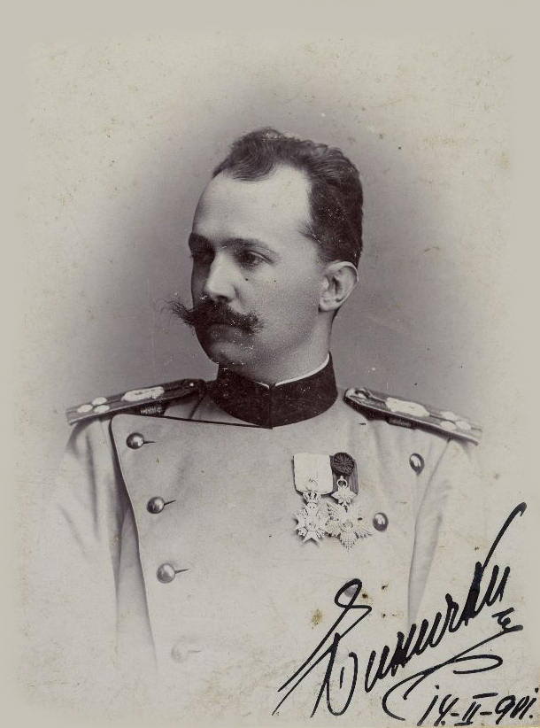 Stanislav Binički, (27 July 1872 – 15 February 1942) was a Serbian composer, conductor, and pedagogue.